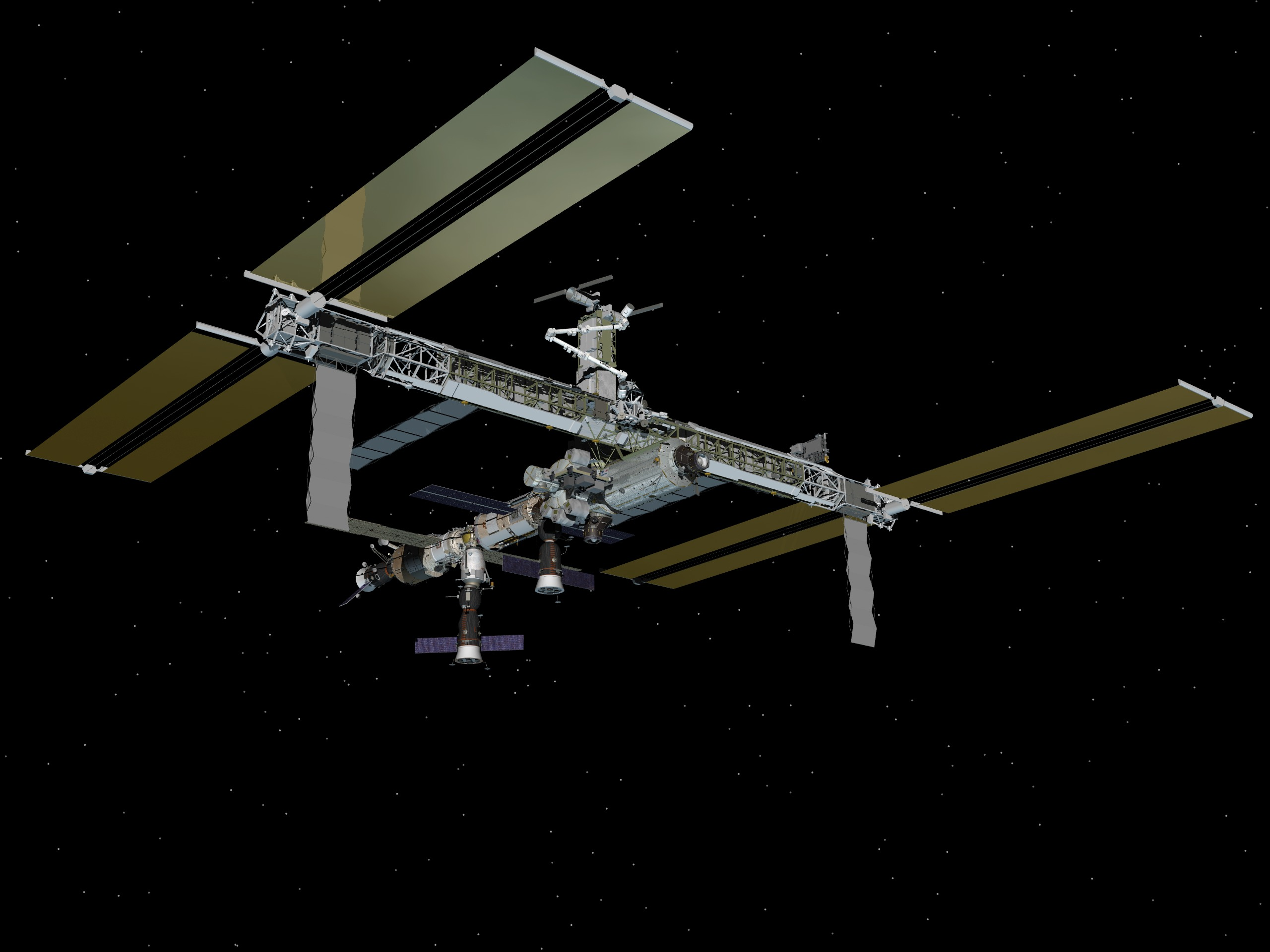 JSC2007-E-44665 (August 2007) --Computer-generated artist's rendering of the International Space Station as of Aug. 30, 2007. This angle shows the starboard side of the orbiting complex. The Pressurized Mating Adapter-3 (PMA-3) relocates from the Unity node port docking mechanism to its nadir docking mechanism. During the STS-118 mission, the Starboard 5 (S5) truss segment and External Stowage Platform (ESP-3) were added; and the Port 6 (P6) forward radiator was retracted. Progress 26 resupply vehicle remains docked to the Pirs Docking Compartment and Progress 25 resupply vehicle is docked to the Zvezda Service Module aft port. Soyuz 14 (TMA-10) remains linked to the Zarya nadir port.